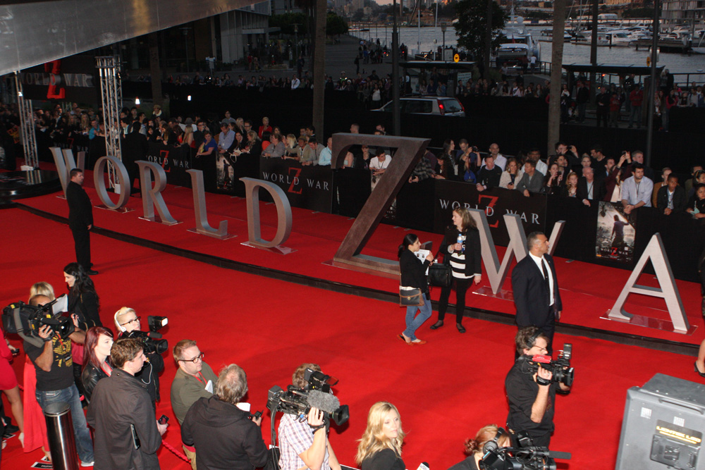 Brad Pitt arrives on Sydney's red carpet for World War Z premier - 9th June 2013... Hollywood heartthrob Brad Pitt has arrived on the red carpet and he looks happy to be at the World War Z Australian premiere. Dressed in a sharp black suit he waved to hundreds of fans at The Star, before posing for pictures and signing autographs. It's all part of Paramount Pictures battle for the entertainment dollar, in this case, Australian dollars, as well as being part of the well documented "Aussie Casino Wars", with Echo Entertainment getting a leg up on James Packer's Crown Casino empire on this occasion. Last time we checked Hollywood's Tom Cruise was a Packer secret weapon, but looks like JP would do well to further expand his Hollywood pack; especially since Packer has some money tied up in Hollywood movie productions these days, but that's another story. Pitt landed at Sydney Airport around 8am on a private jet before being escorted away in a private car to an inner city hotel (which may or may not have been 'The Darling' (part of The Star), another Echo Entertainment enterprise. Having attended the global premiere of World War Z with his partner Angelina Jolie last week, Pitt is down under for the Australian premiere of the hot action movie. There's rumours that Pitt's wife, Angelina Jolie, may have also come down under, but there's no photos or witnesses accounts to Jolie's presence. Maybe she's waiting in the hotel room for Brad... just a thought. Websites World War Z World War Z (Australia) Paramount Pictures (Australia) The Star The Darling Eva Rinaldi Photography